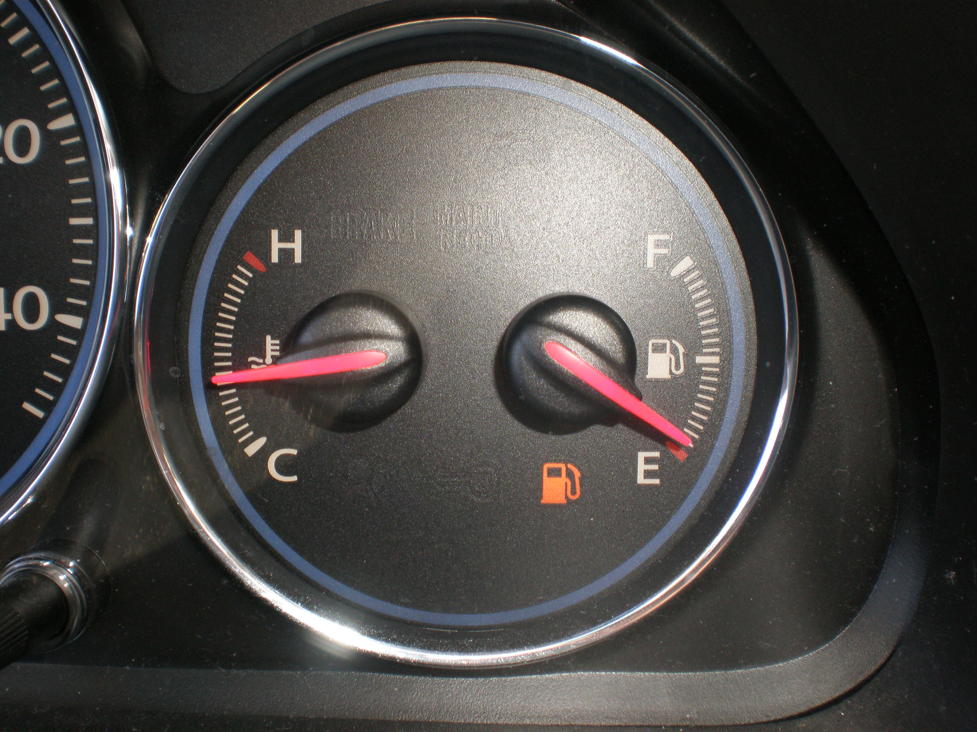 The empty fuel indicator displaying on the fuel gauge for a 2003 Honda Civic.